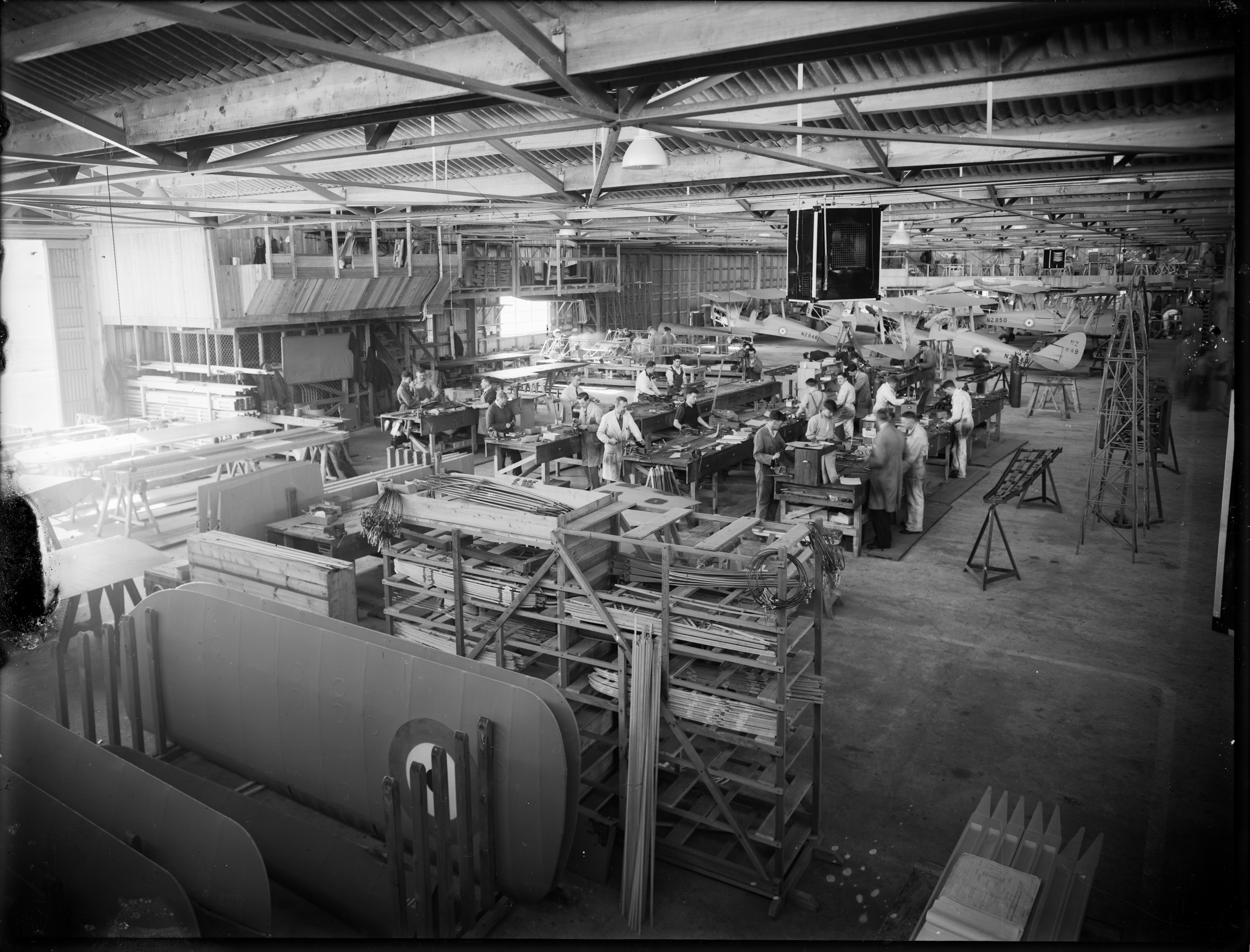 De Havilland aircraft factory, Rongotai, Wellington, 1939 This same building was Wellington International Airport terminal into the 1980s Reference Number: 1/1-021674-G Photographer: William Hall Raine Glass negative Photographic Archive, Alexander Turnbull Library Find out more about this image from the Alexander Turnbull Library.